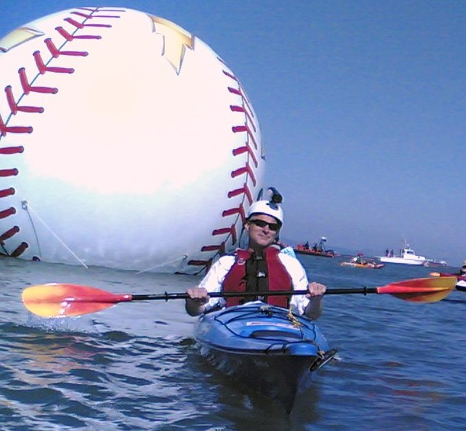 Kenny Mayne in a kayak in McCovey Cove in 2007